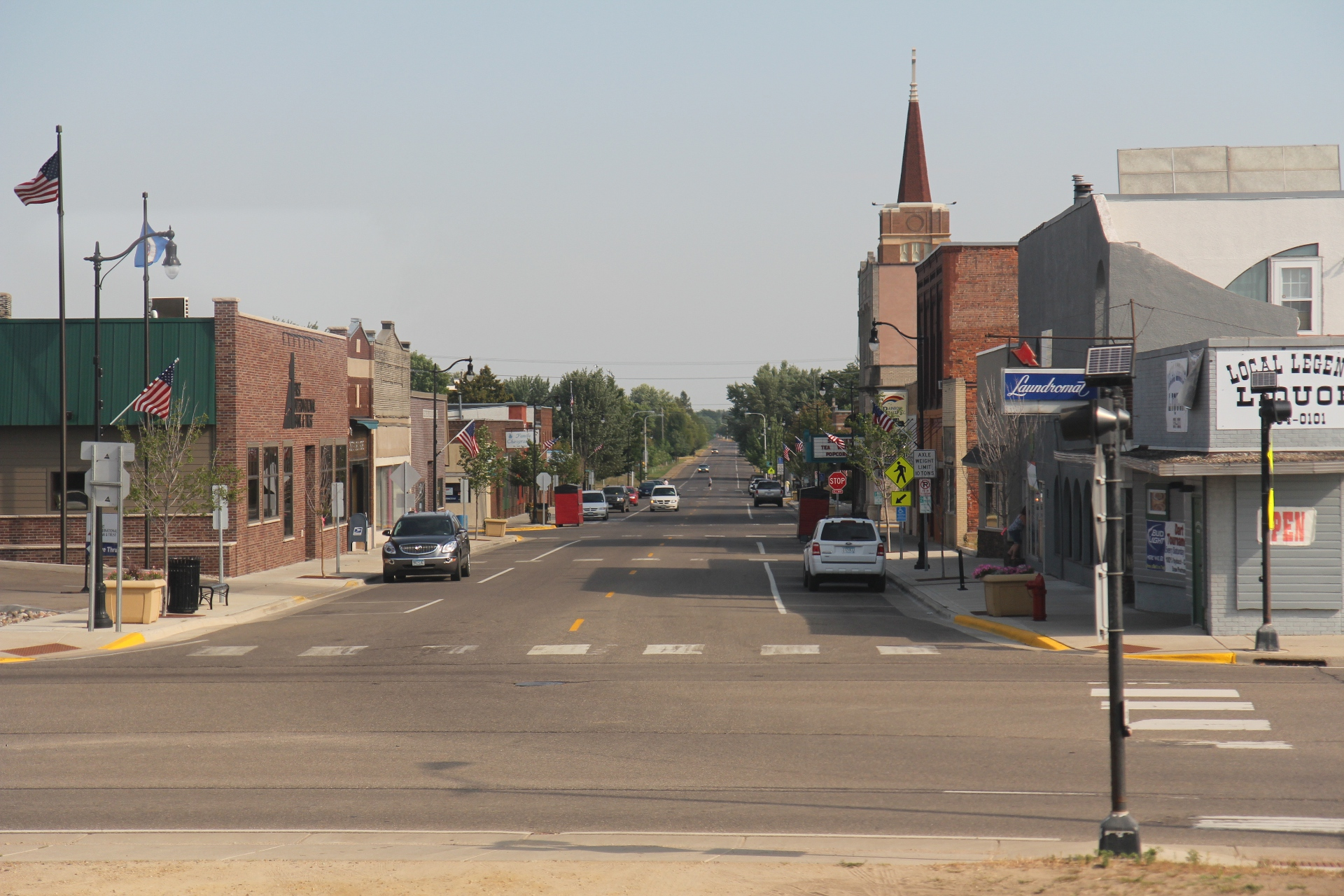 Downtown Staples, MN from the Empire Builder.